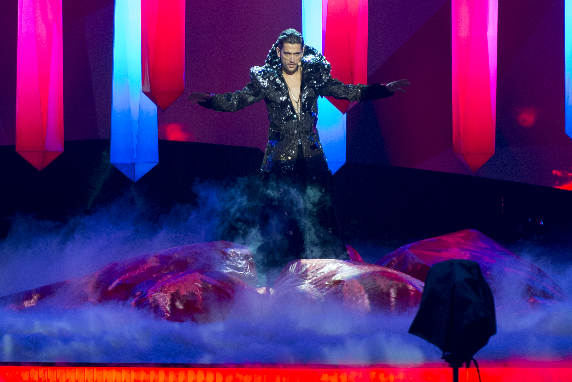 Cezar representing Romania with the song "It's My Life" during the second dress rehearsal of the second semi final of the Eurovision Song Contest 2013 in Malmö. (Help translate this text)